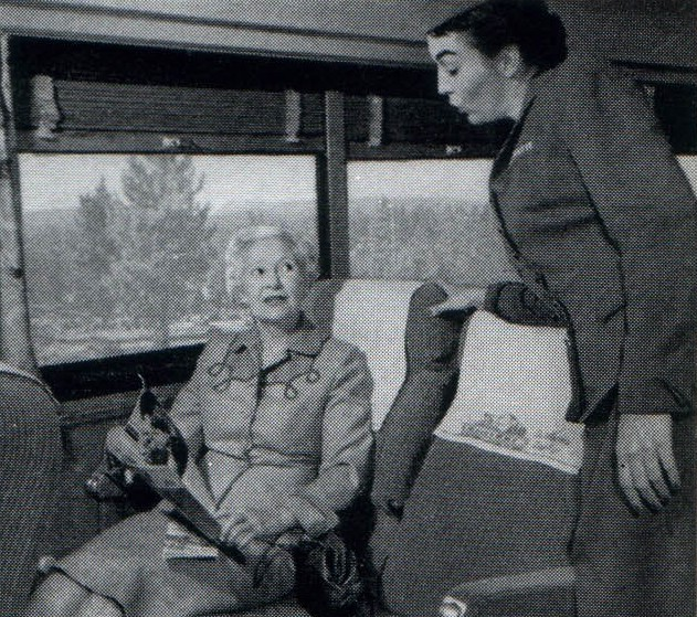 A February 1956 advertisement for the Western Pacific's California Zephyr, featuring a Zephyrette, Nellie O’Grady, interacting with a variety of passengers on board the train.